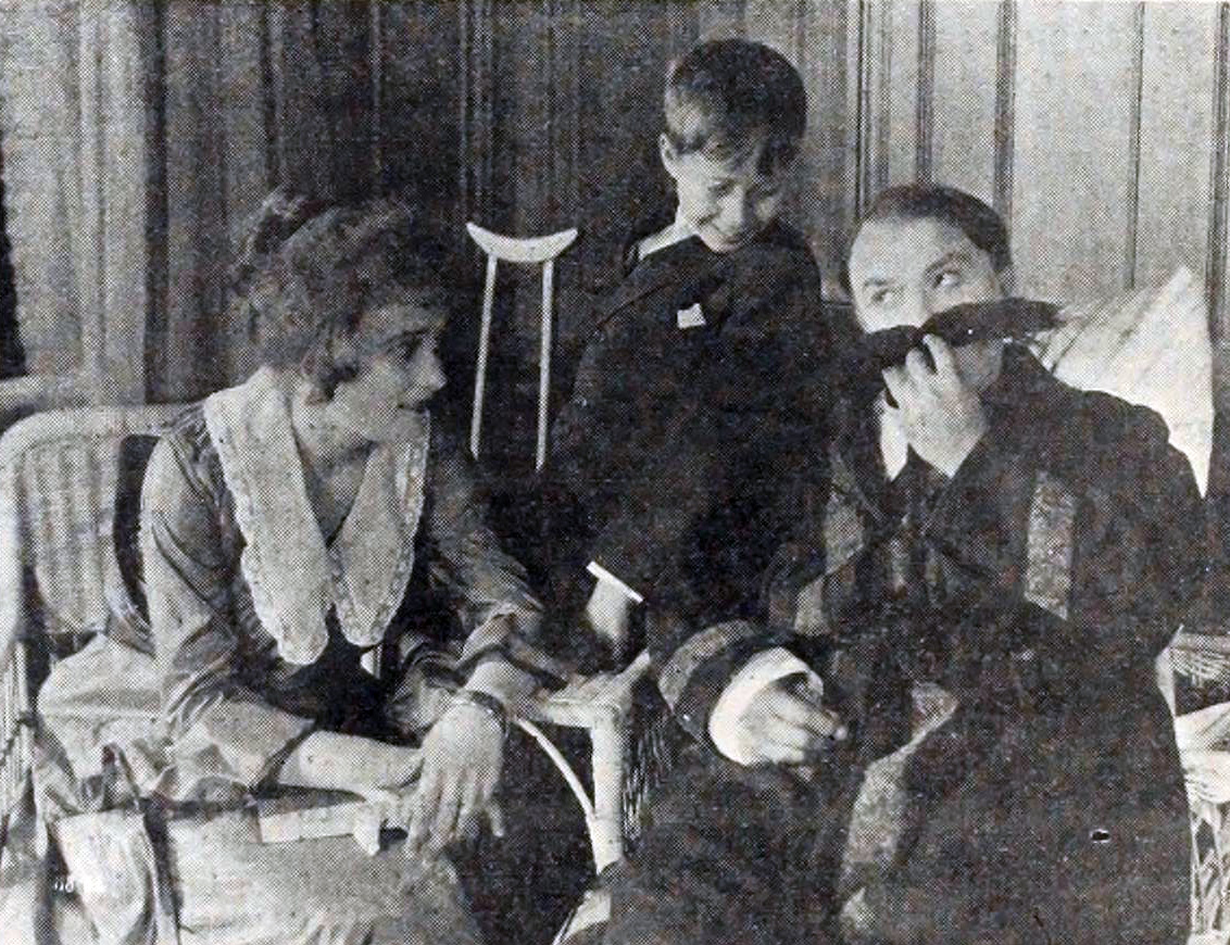 Illustration of a review in The Moving Picture World for The Clown (1916).